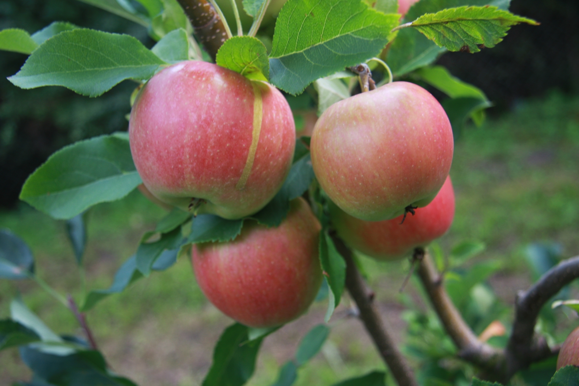 Ananas Bierzenicki Apple Cultivar